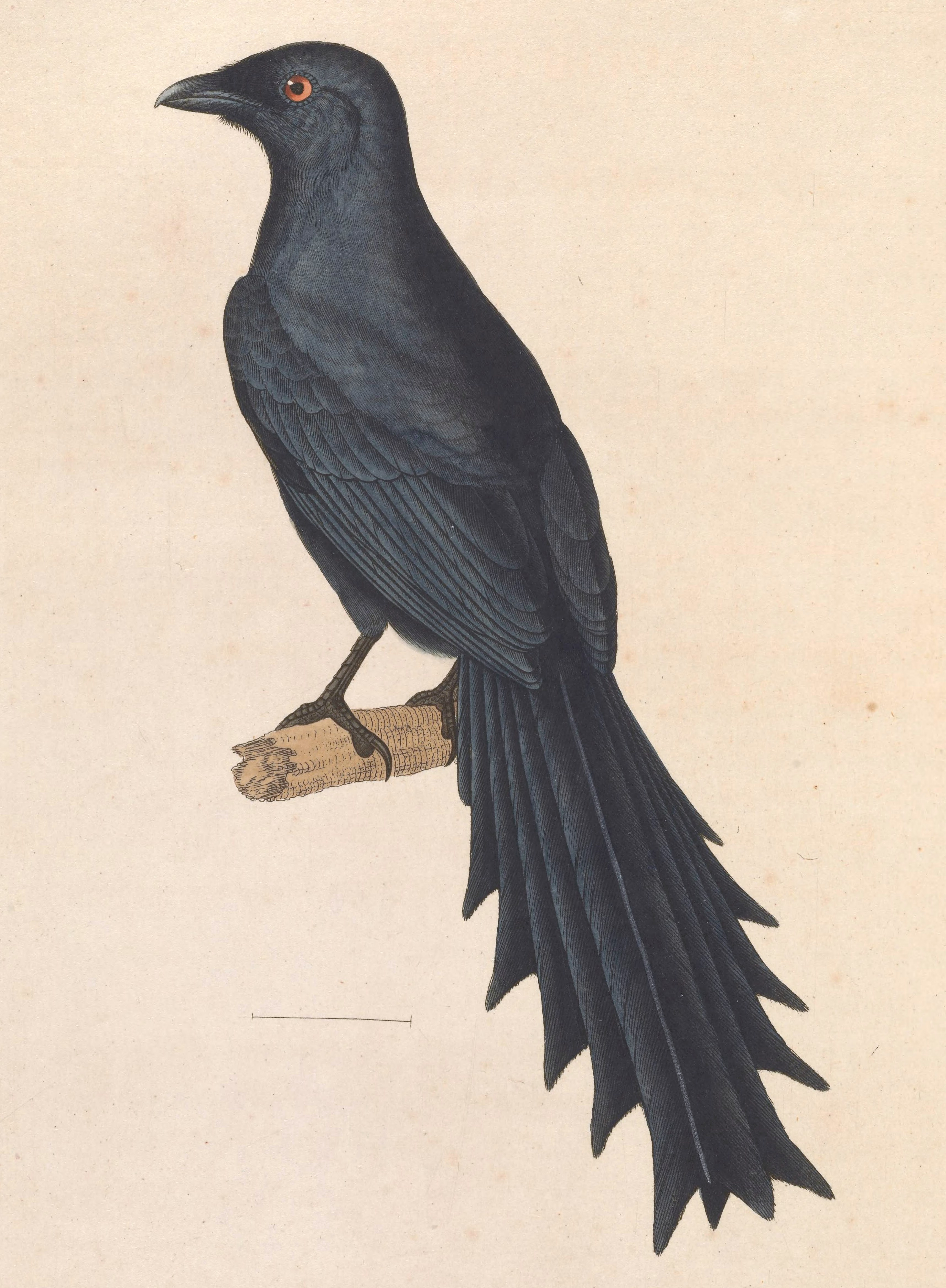 « Glaucopis temnura » = Temnurus temnurus (Ratchet-tailed Treepie)